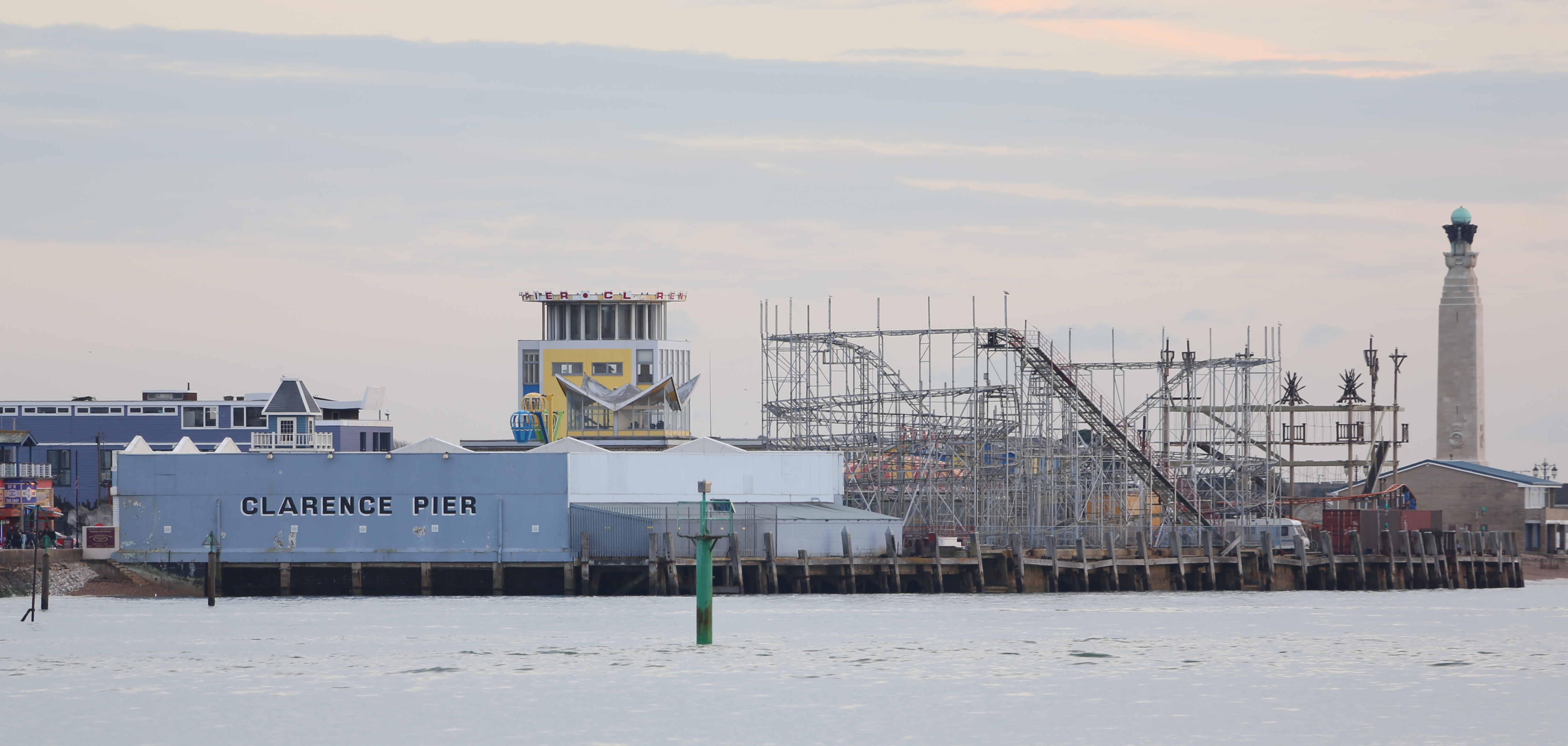 Photo of Clarence Pier from the north-west